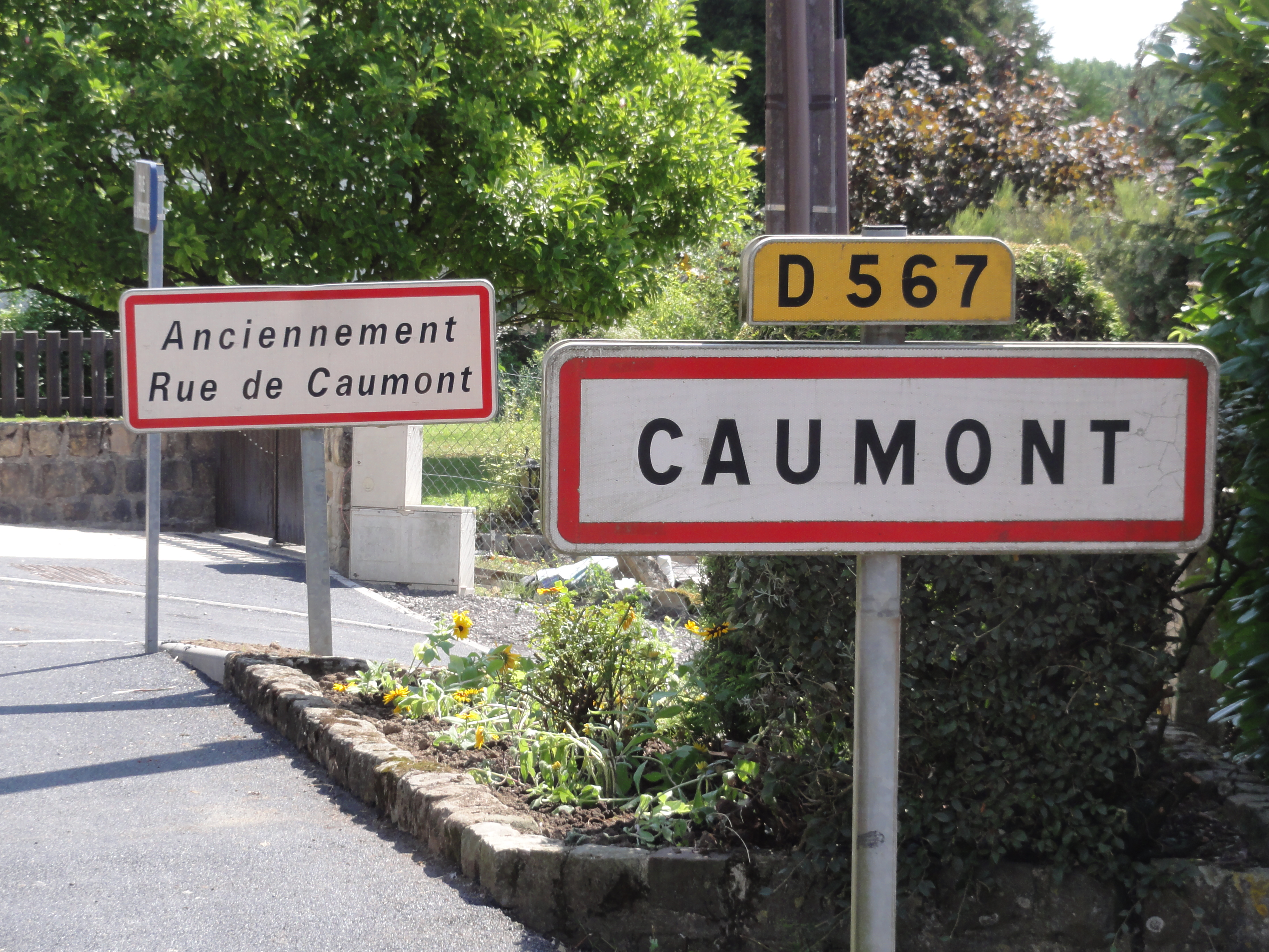 Caumont (Aisne) city limit sign